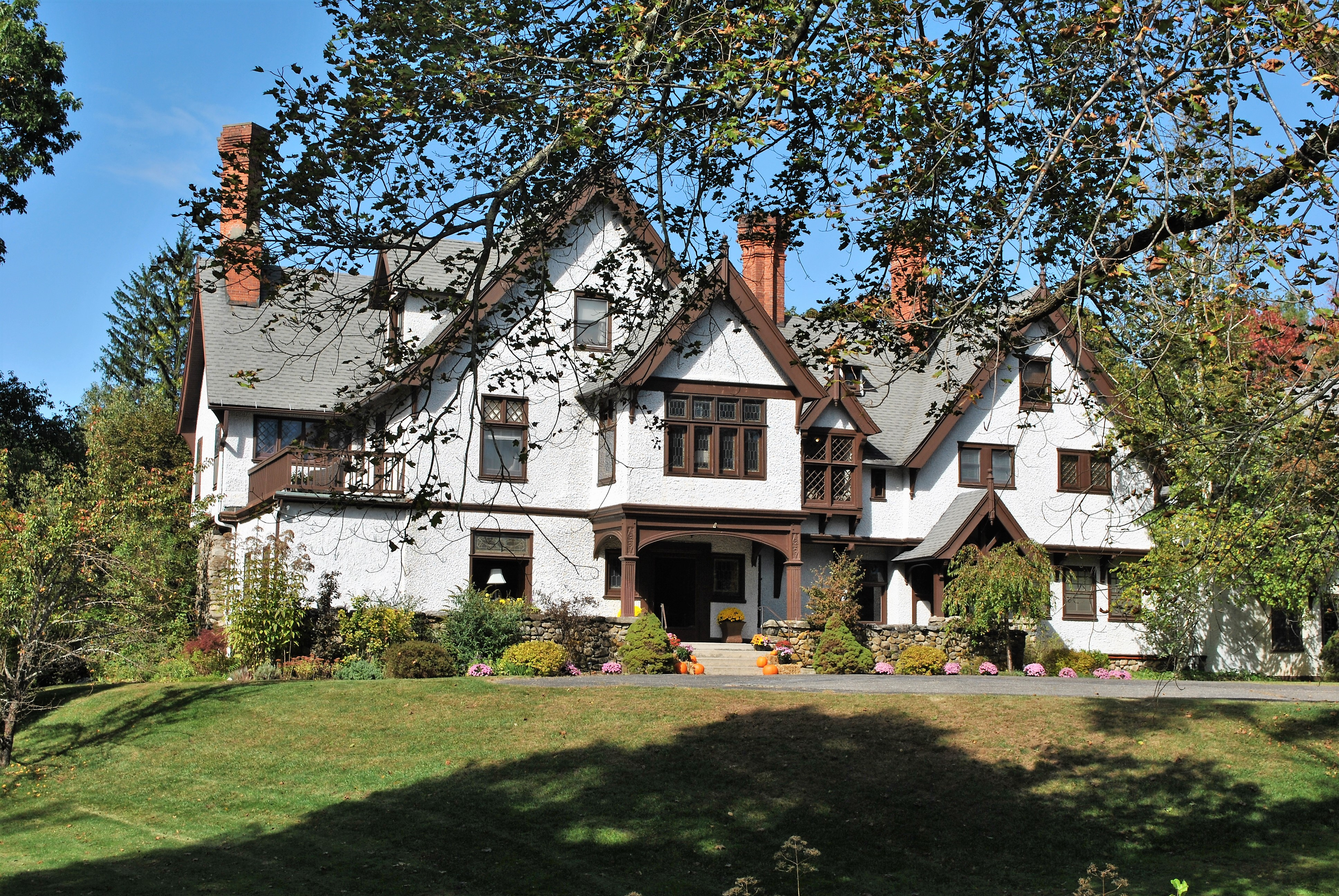 The Alders (now Manor House), a Victorian Tudor mansion in Norfolk, Connecticut, architect Ehrick Rossiter